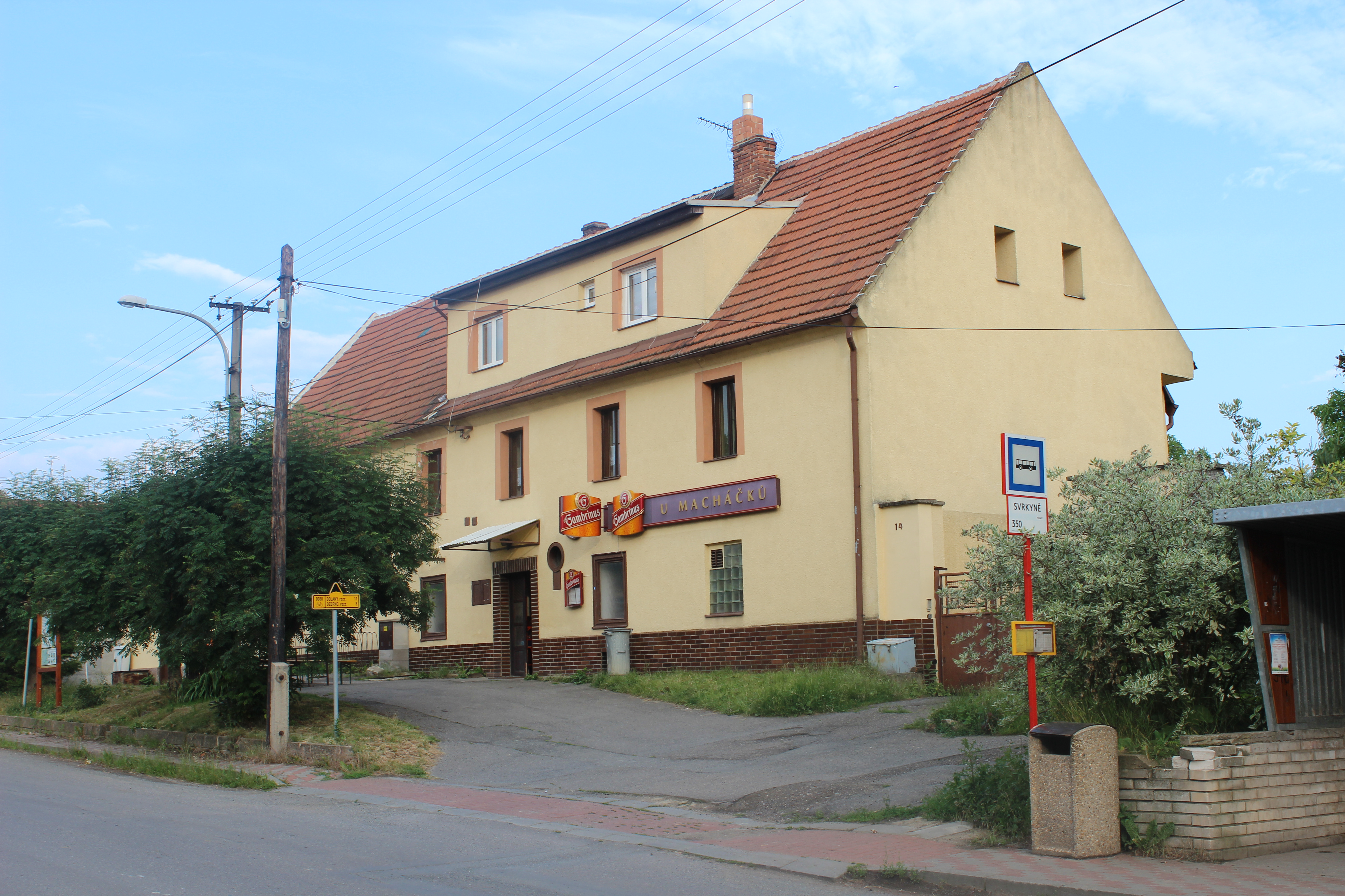 Municipality building in Svrkyně